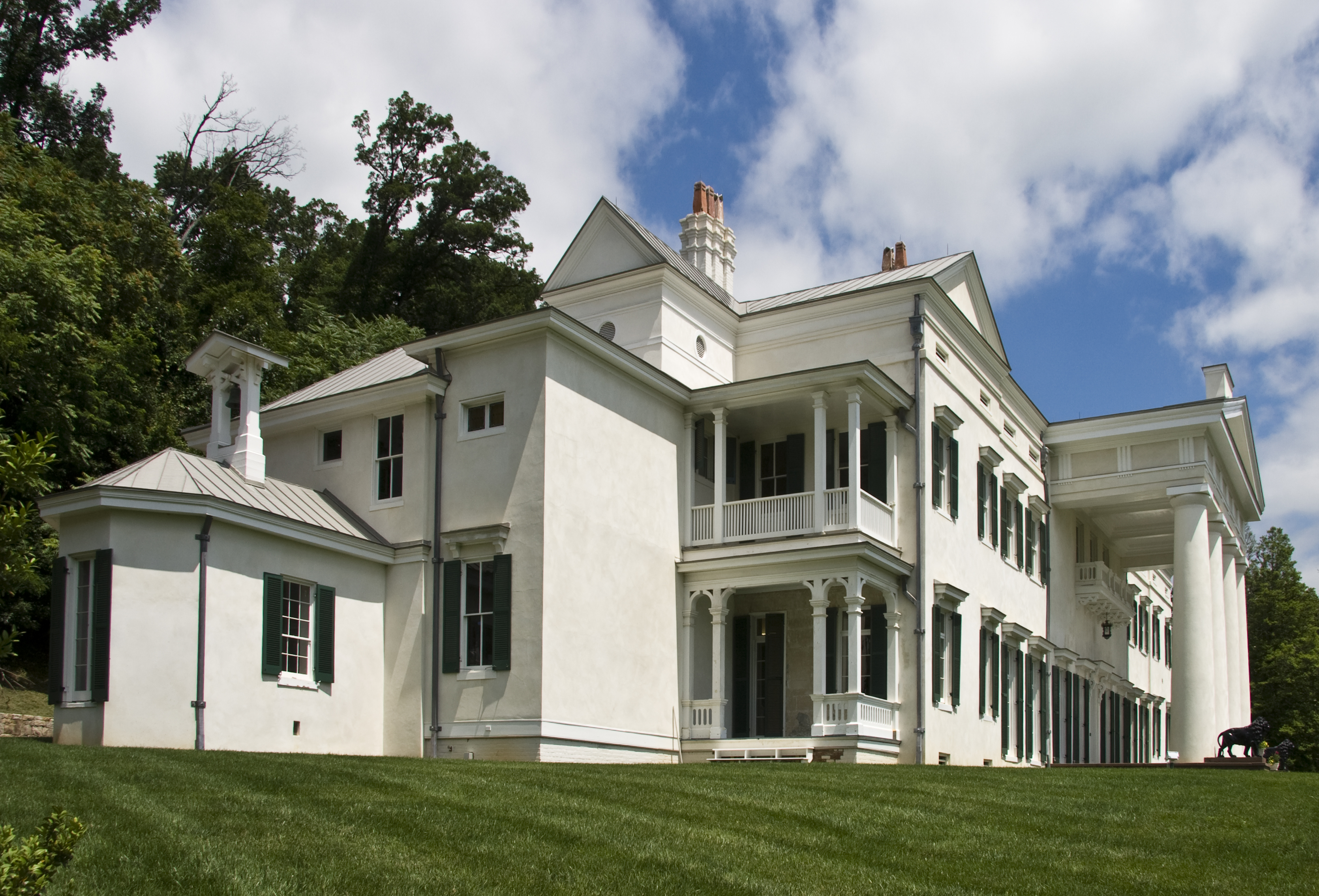 Morven Park, Leesburg, Virginia, USA